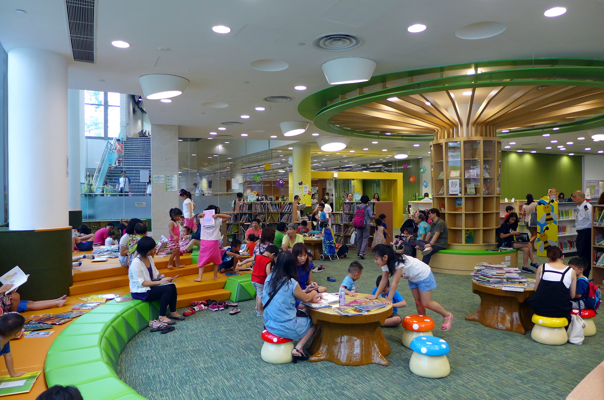 Tiu Keng Leng Public Library Children Library